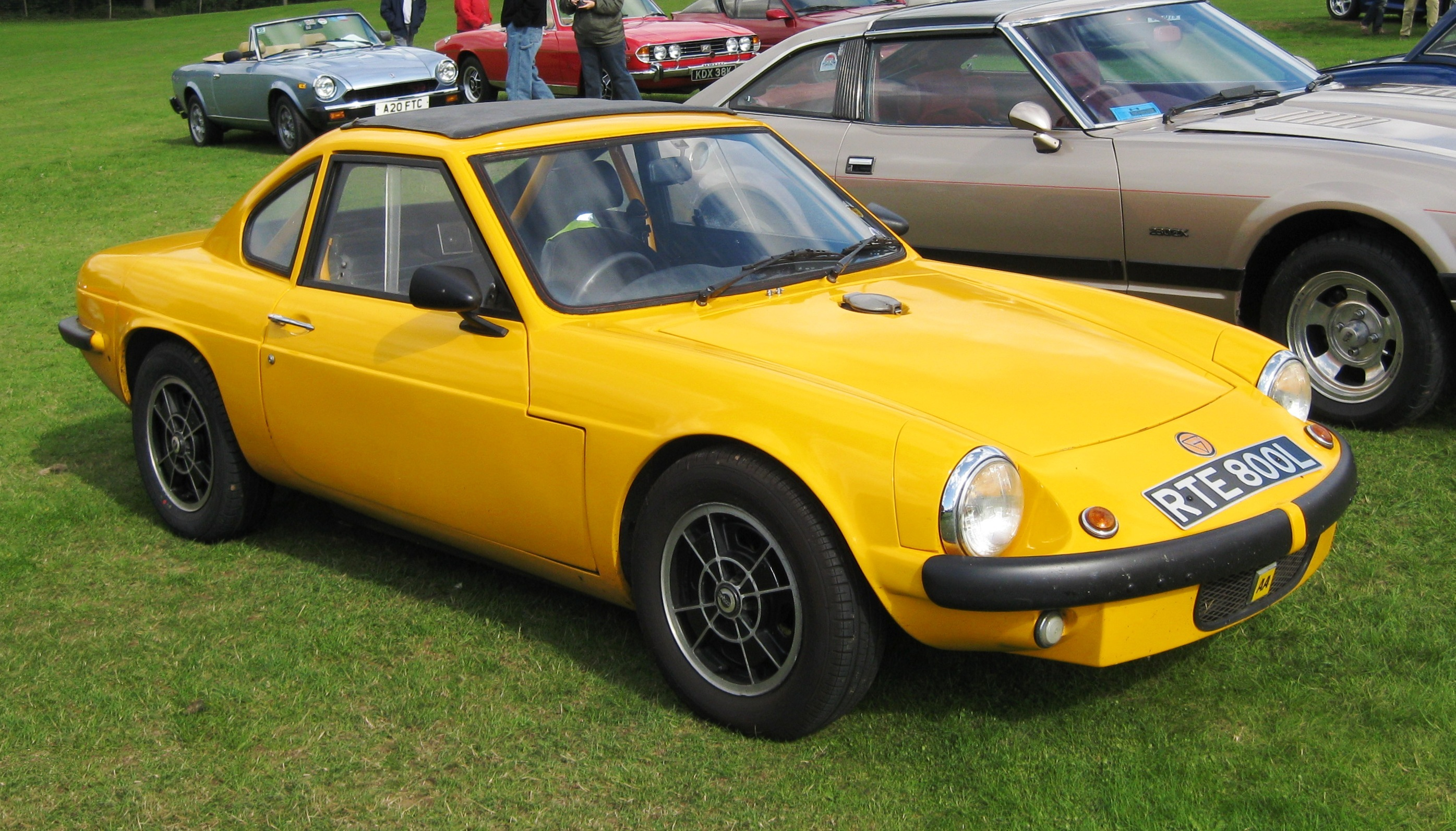 Ginetta G15 at Knebworth Classic Car Show